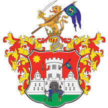 Sombor cat of arms.